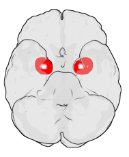 Location of the Amygdala in the Human Brain The figure shows the underside (ventral view) of a semi-transparent human brain, with the front of the brain at the top. The red blobs show the approximate location of the amygdala in the temporal lobes of the human brain. Note: the amygdala is covered by the ventral temporal cortex (i.e., it is inside the transparent brain). The figure was generated using MATLAB and Blender. It is based on MRI imaging data from the Wellcome Department of Imaging Neuroscience, UCL and on amygdalar coordinates from the Talairach brain atlas.